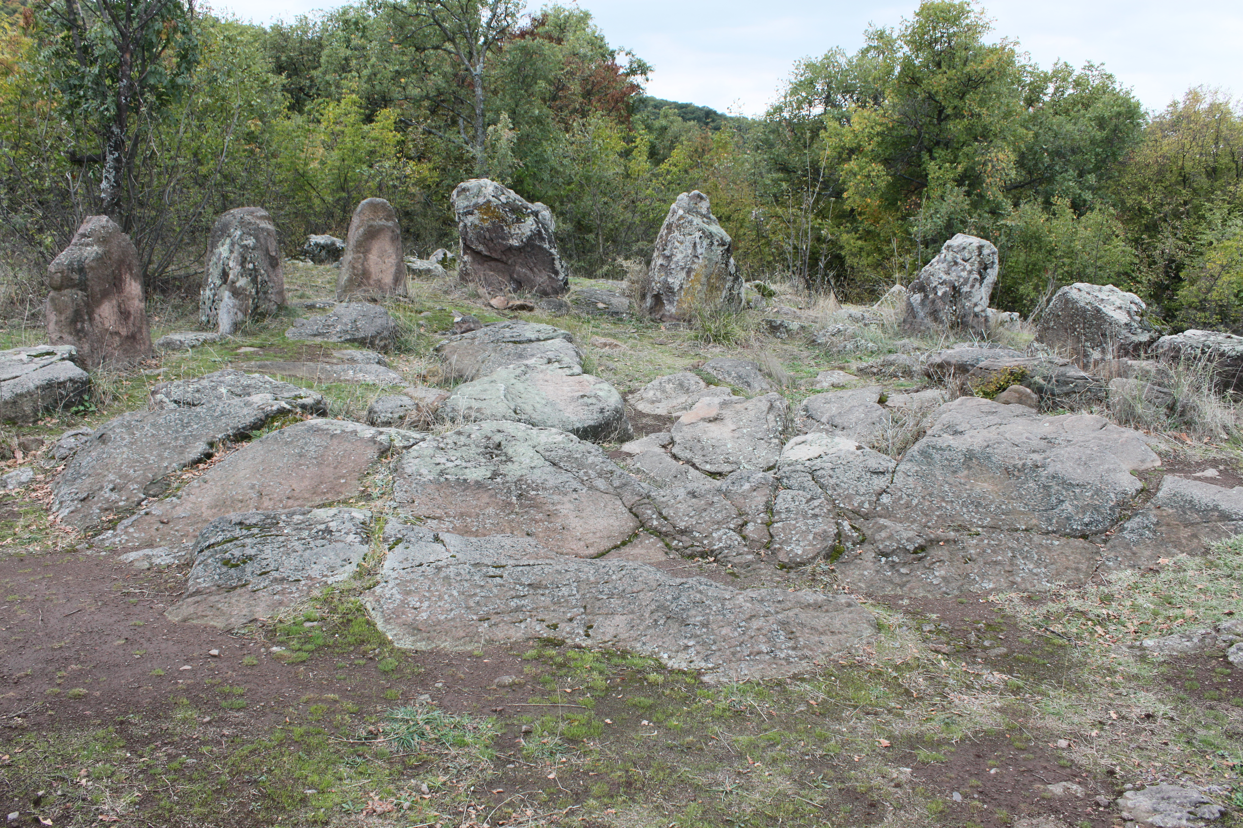 Cromlech near village Dolni glavanak, Haskovo District, Bulgaria